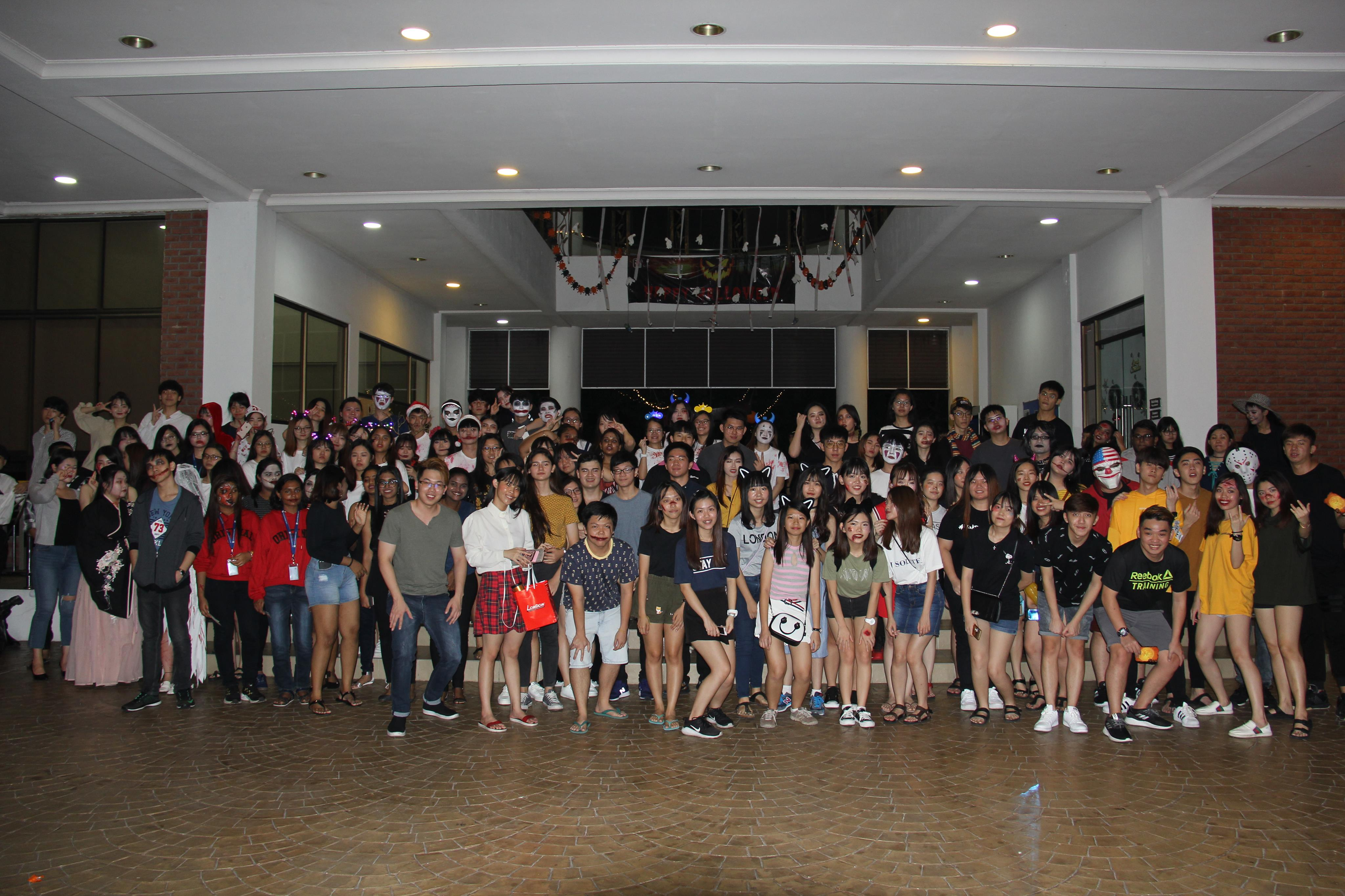 Crescendo Halloween Night 2018 @ Crescendo International College, Ulu Tiram, Johor Bahru, Johor, Malaysia